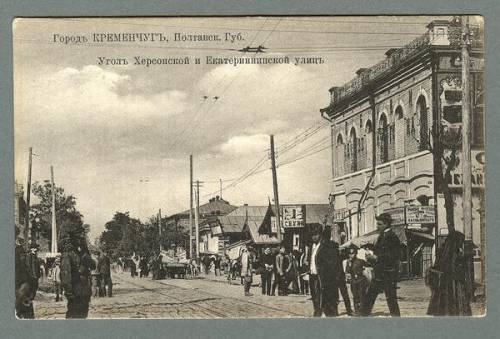 crossroad of Yekateriniskaya (now Lenina) Str. and Khersonskaya (now Karla Marksa) Str., before 1917